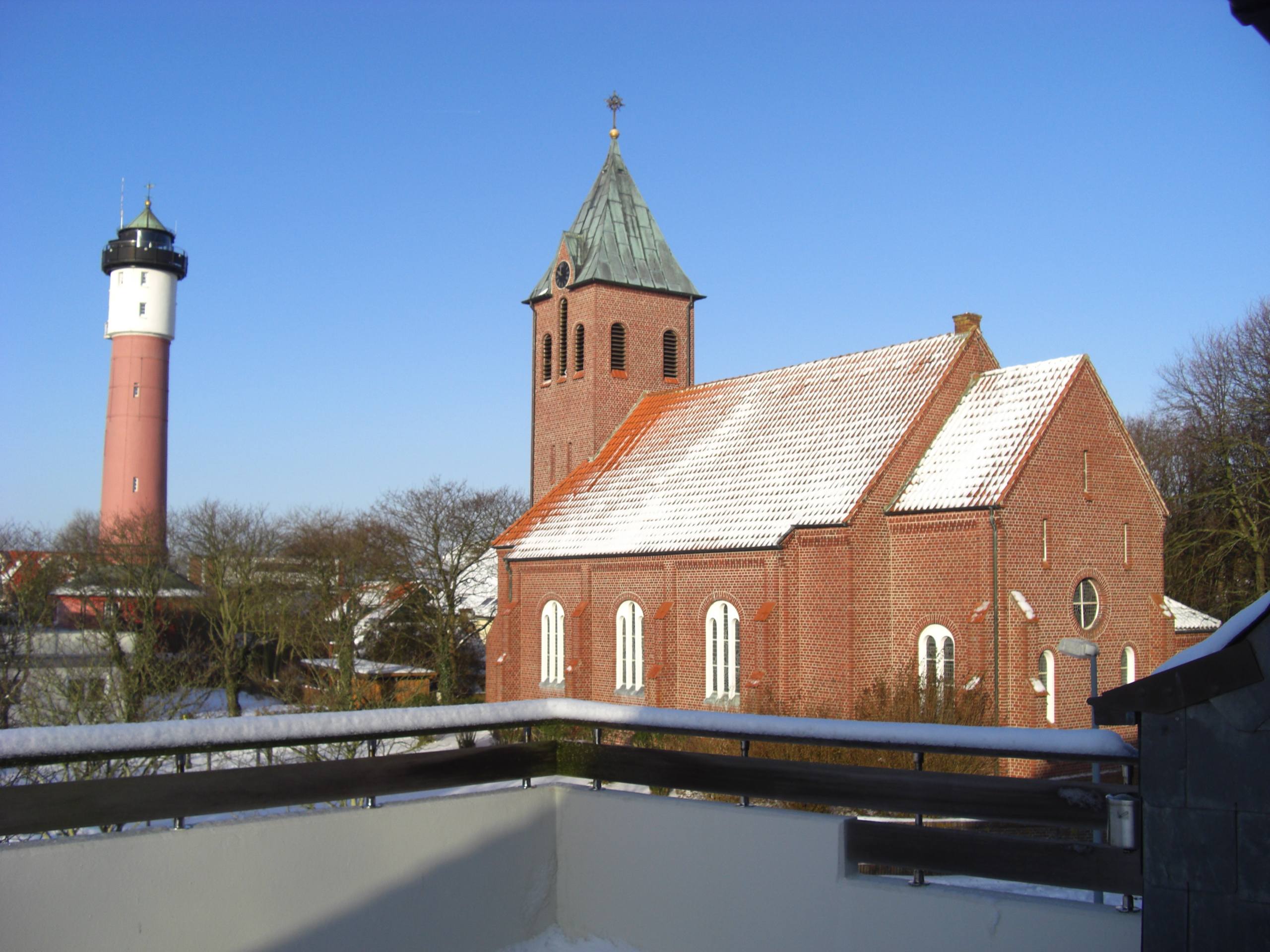 Wangerooge- Church and Lighthouse